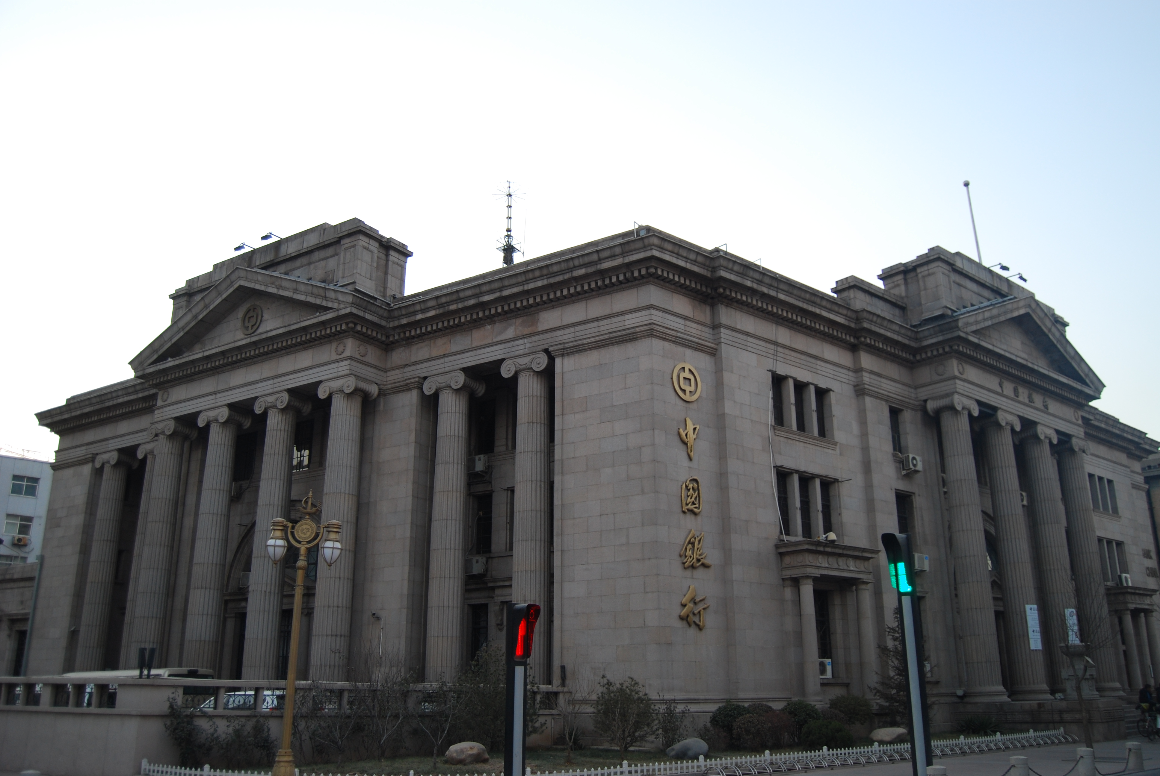 Former Hongkong and Shanghai Bank Corporation in Jiefangbei Lu No. 82–86, Heping District, Tianjin